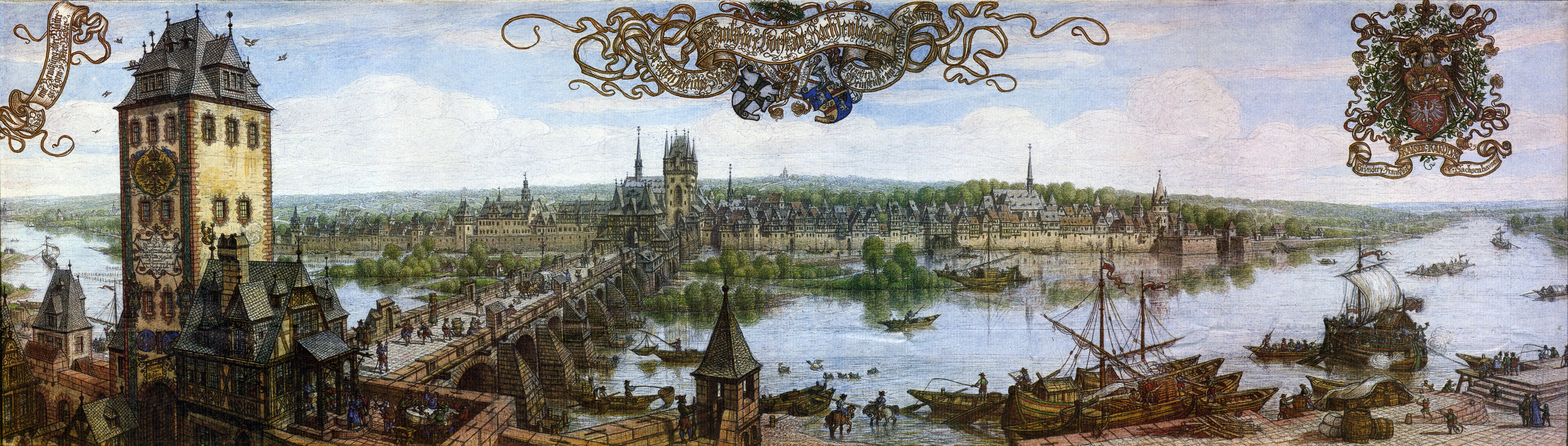 Frankfurt's Vorstadt of Sachsenhausen at the beginning of the 17th century, water colour; transcript of the headline (from left to right): „AD 1889 / under use of old documents drawn and painted by Peter Becker / the old imperial city / Frankfurt's suburbia Sachsenhausen / as seen from the inn at the old bridge tower / founder of Frankfurt / Charlemagne / and Sachsenhausen“